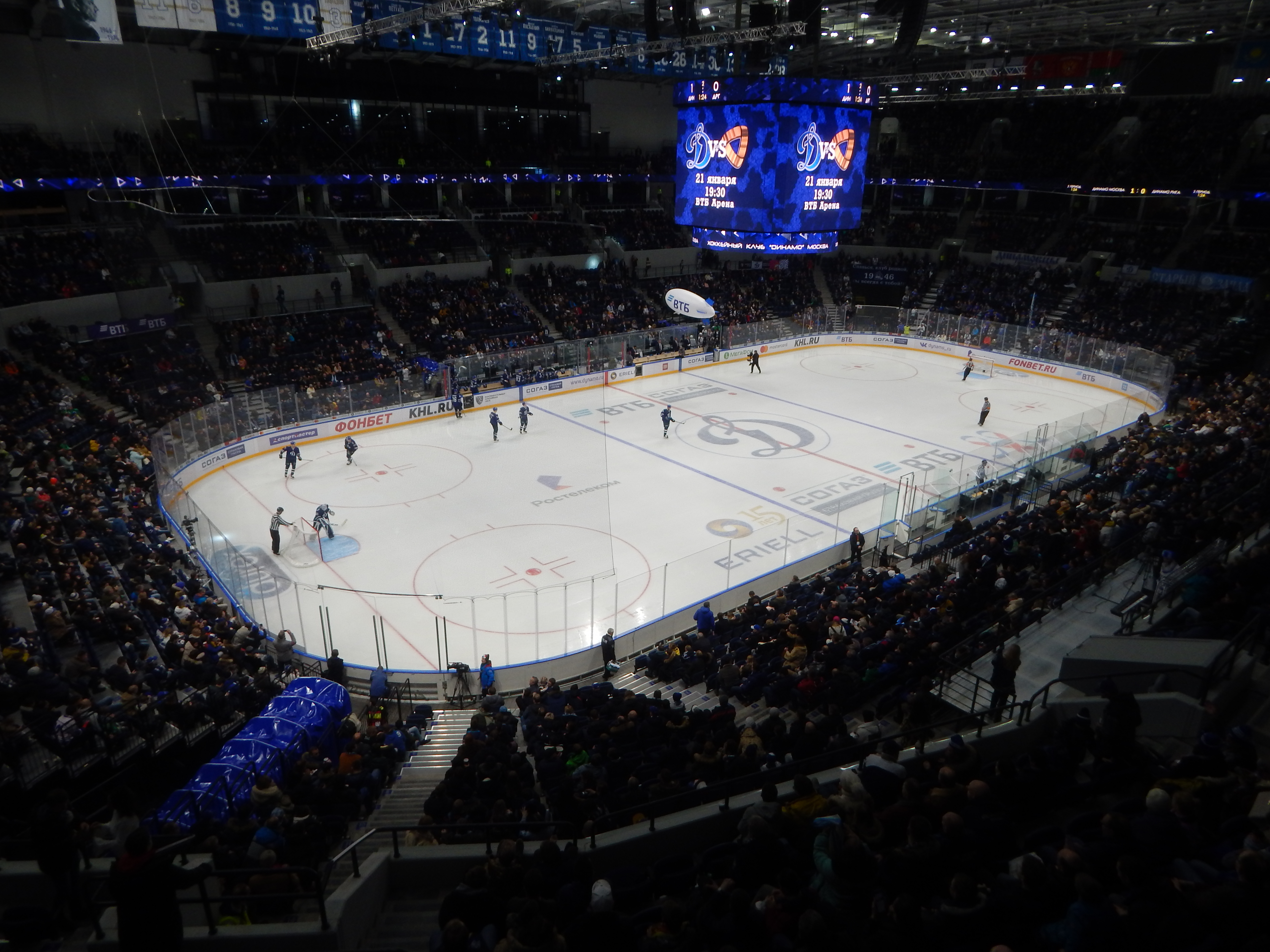 KHL regular match between Dynamo Moscow and Dinamo Riga. This game was held at Dinamo Stadium in Moscow on January 6, 2019.